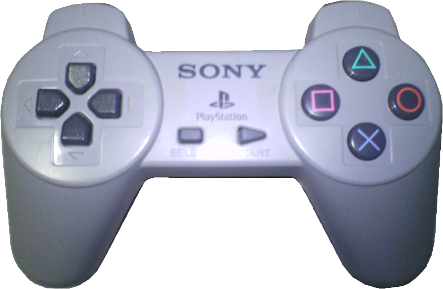 PlayStation controller without background